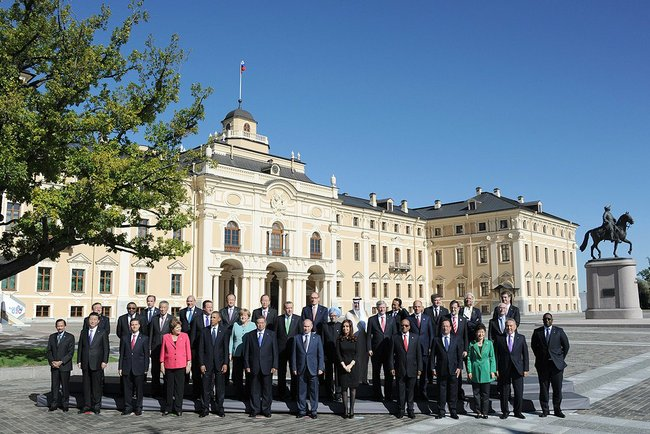 2013 G-20 Saint Petersburg summit